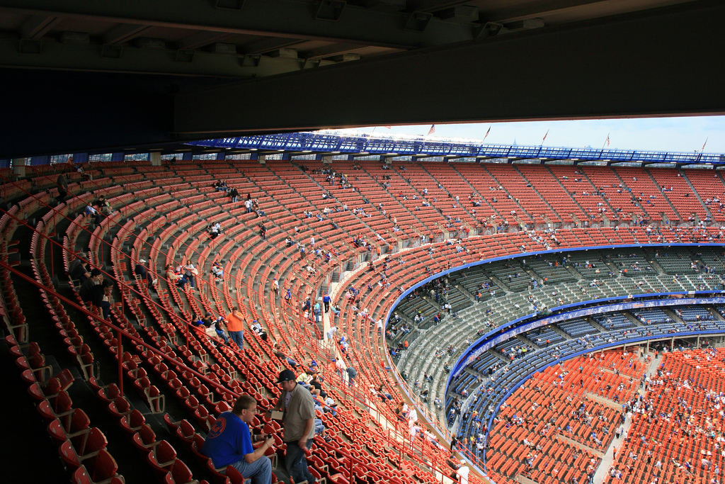 View of Shea Stadium seating from the upper level on the first base side.